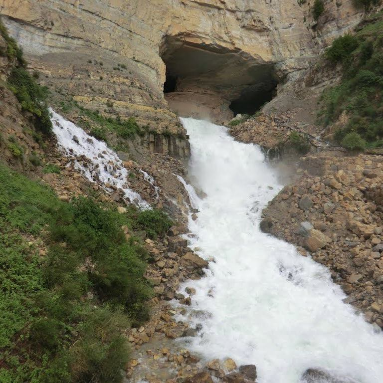 a l' hiver